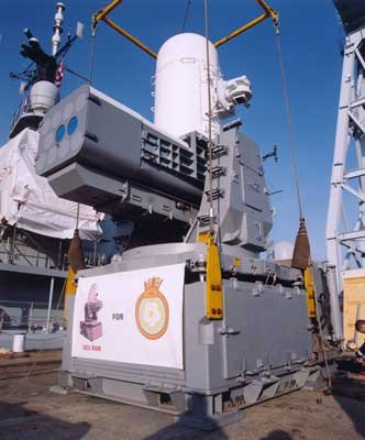 SeaRAM